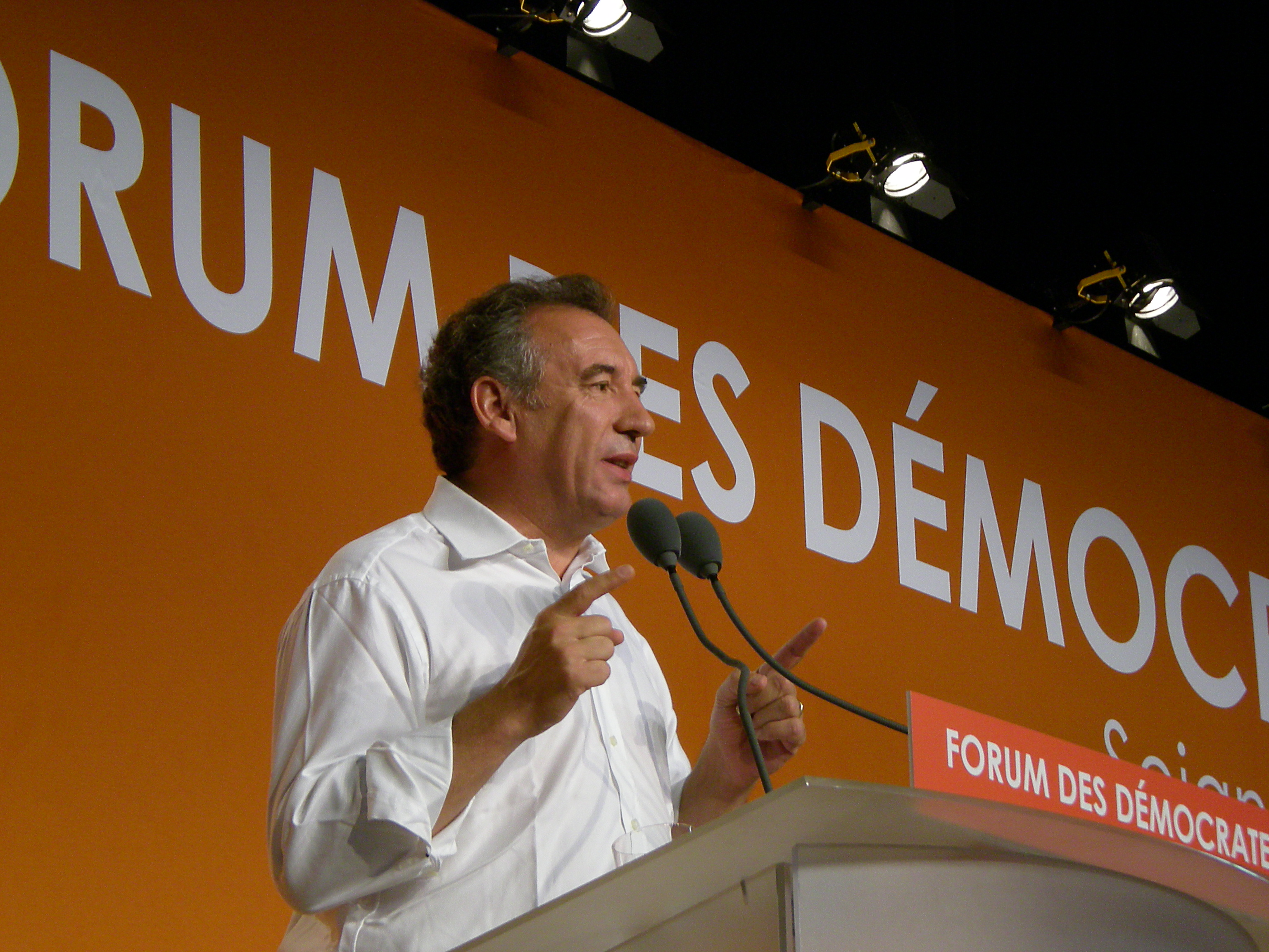 Francois Bayrou, french politician president of The Democratic Movement (Mouvement démocrate, MoDem).